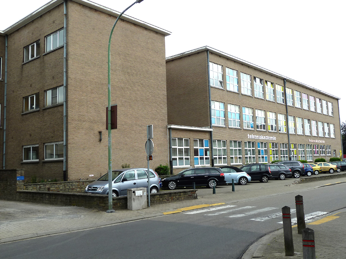 Lyceum Tienen, south